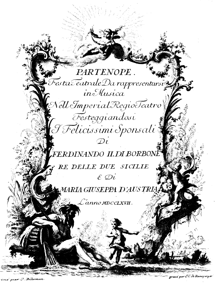 Johann Adolph Hasse - Partenope - titlepage of the libretto - Vienna 1767